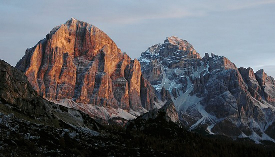 Tofana, Dolomites (Italy).